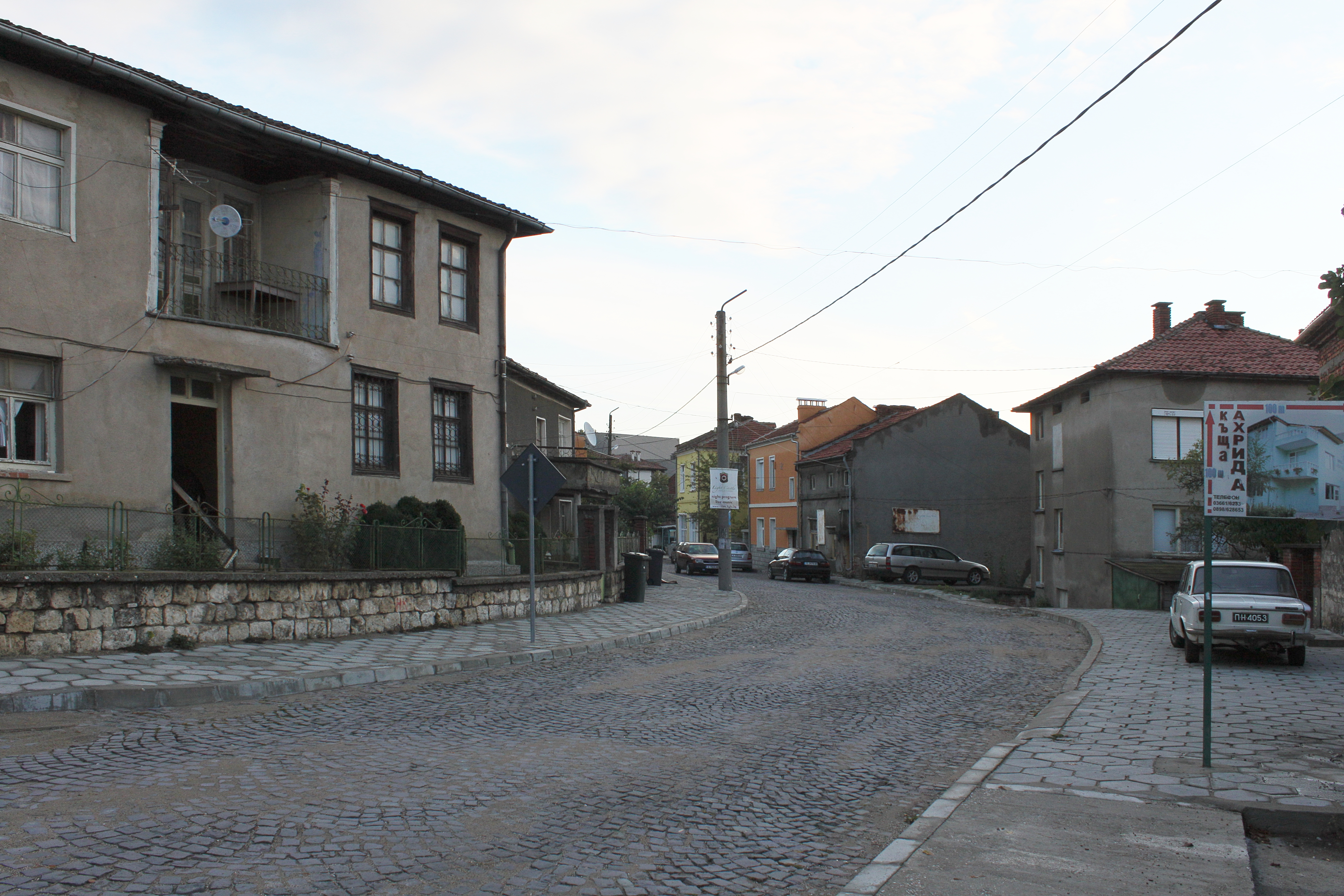 Ivailovgrad, Bulgaria